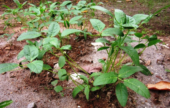 Plant habit